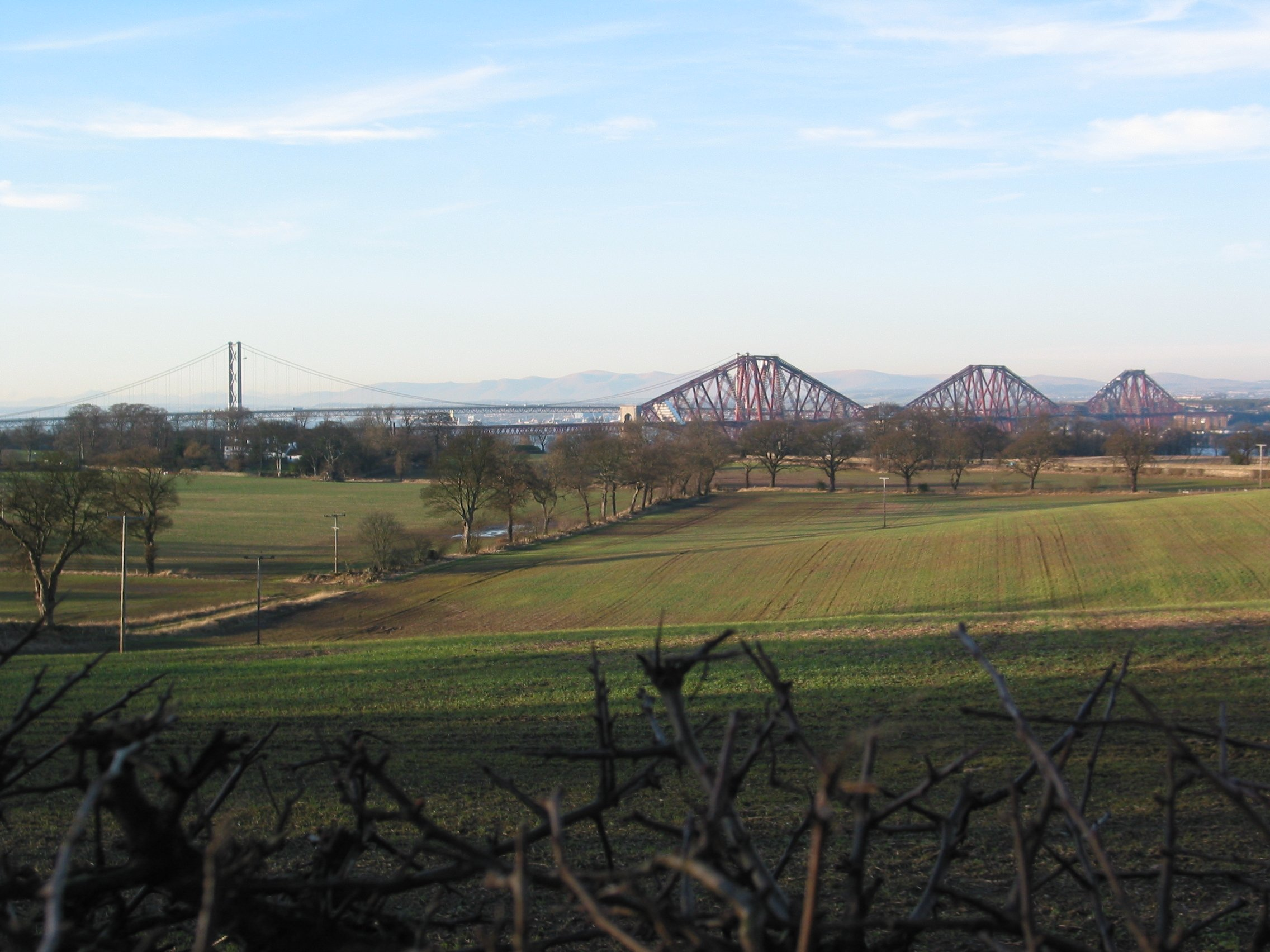 The Forth Bridges, 29 January 2005